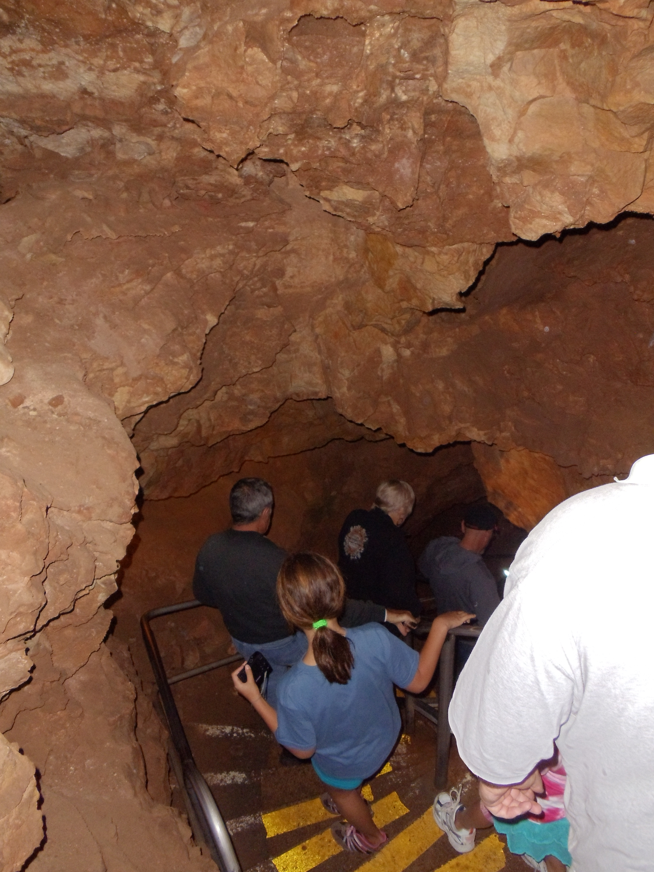 A group of tourists descend the staircase into Wind Cave in Wind Cave National Park in South Dakota.